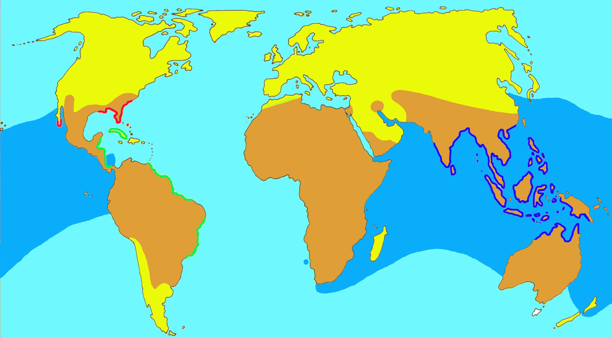 Distribution of marine snakes. Terrestrial distribution represents terrestrial elapids (brown), marine distribution represents sea snakes, i.e. the subfamily Hydrophiinae of the Elapidae (blue). Dark blue: homalopsid snakes along the Asian and Australian coasts. Red: North-American Natricidae, green: neotropical Dipsadidae.